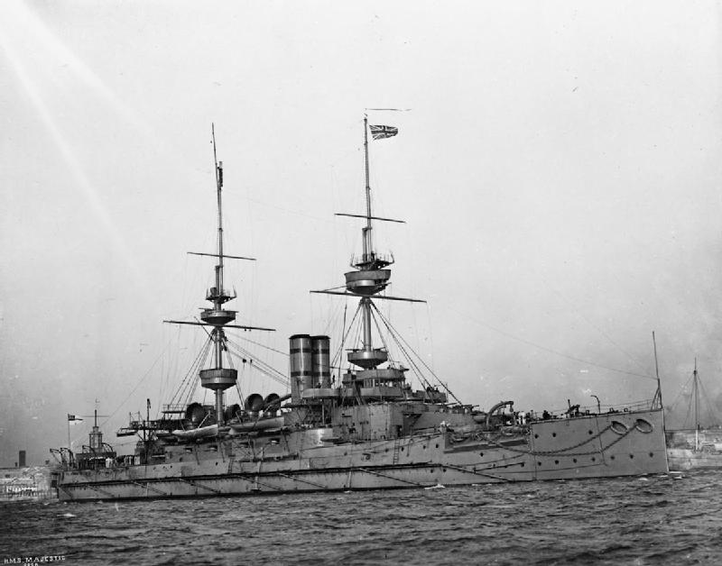 Majestic Class Battleships- Hms Majestic H. M. S. MAJESTIC, 1906.